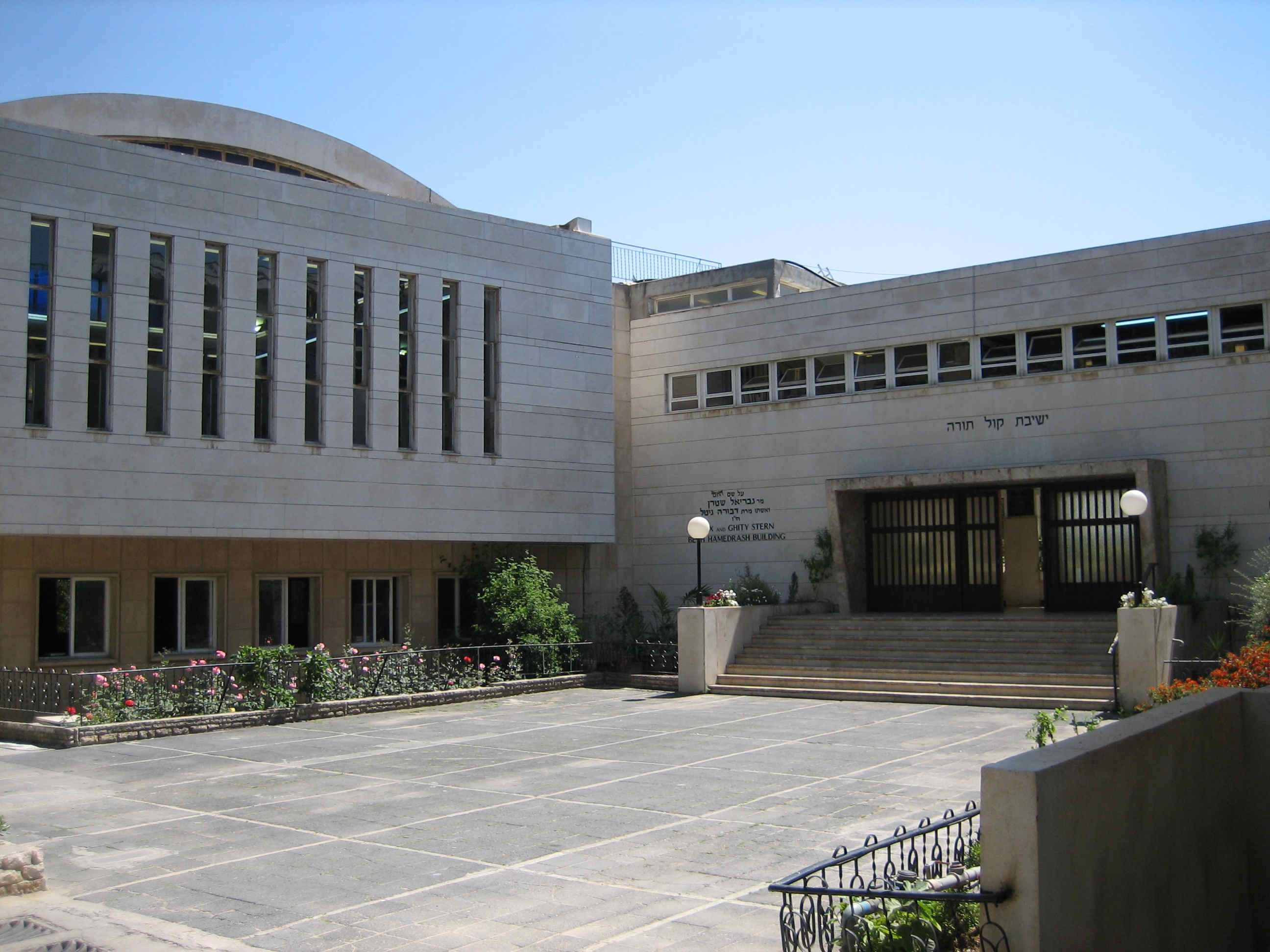 View of Beis Medrash and Main Entrance of the Yeshivah